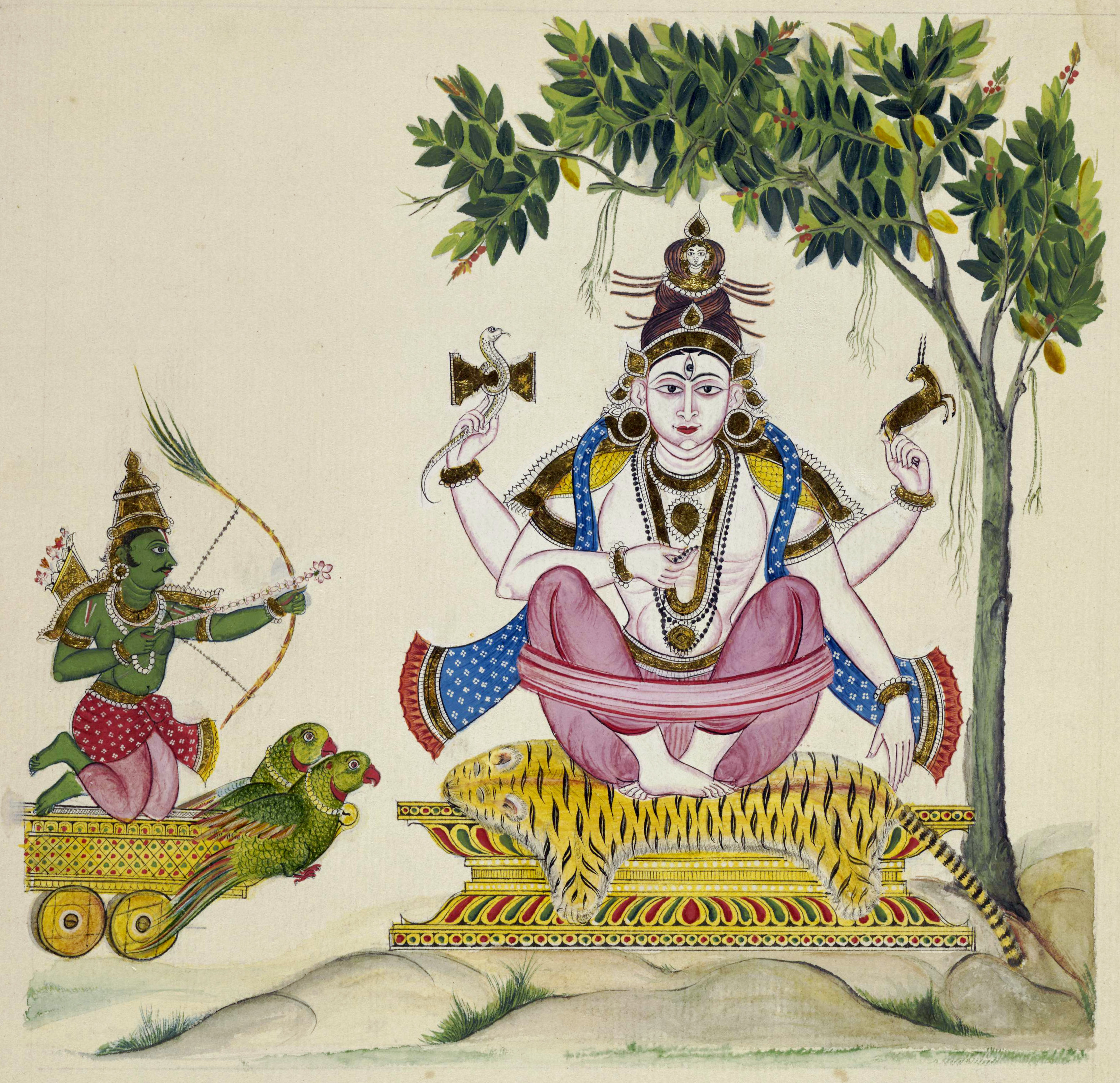 "Śiva meditating. Śiva sits on a tiger skin meditating beneath a banyan tree in a hilly landscape.His knees are bound by a yogapatta. In his upper right hand he carries a damaru, in his upper hand the mriga, his lower right hand carries the rudrakshamala and the lower left rests on his flexed knee. The god wears the usual ornaments, particularly elaborate here are his epaulettes. An angavastra is draped on his shoulders and his third eye is clearly open. His wife Parvati feels neglected and so she commands a diminutive green-complexioned Kama (located to the right of the god), who kneels on his parrot-drawn chariot while aiming his flowery arrow of love at the meditating god. Angry at being disturbed Śiva opens his third eye in anticipation of destroying the hapless messanger. Great care has been taken in the depiction of the sugar cane bow with its string of bees, as well as in that of the lotus-tipped arrow of the god. Noteworthy is the Vaishnava namam on Kama's forehead and arms. The foreground is enlivened by rolling hills and tufts of grass."